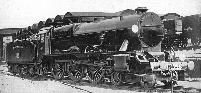 British Express Engines for Heavy Passenger Service 4-Cylinder 4-6-0, Nº 851 "Sir Francis Drake" Southern Railway SR Lord Nelson class